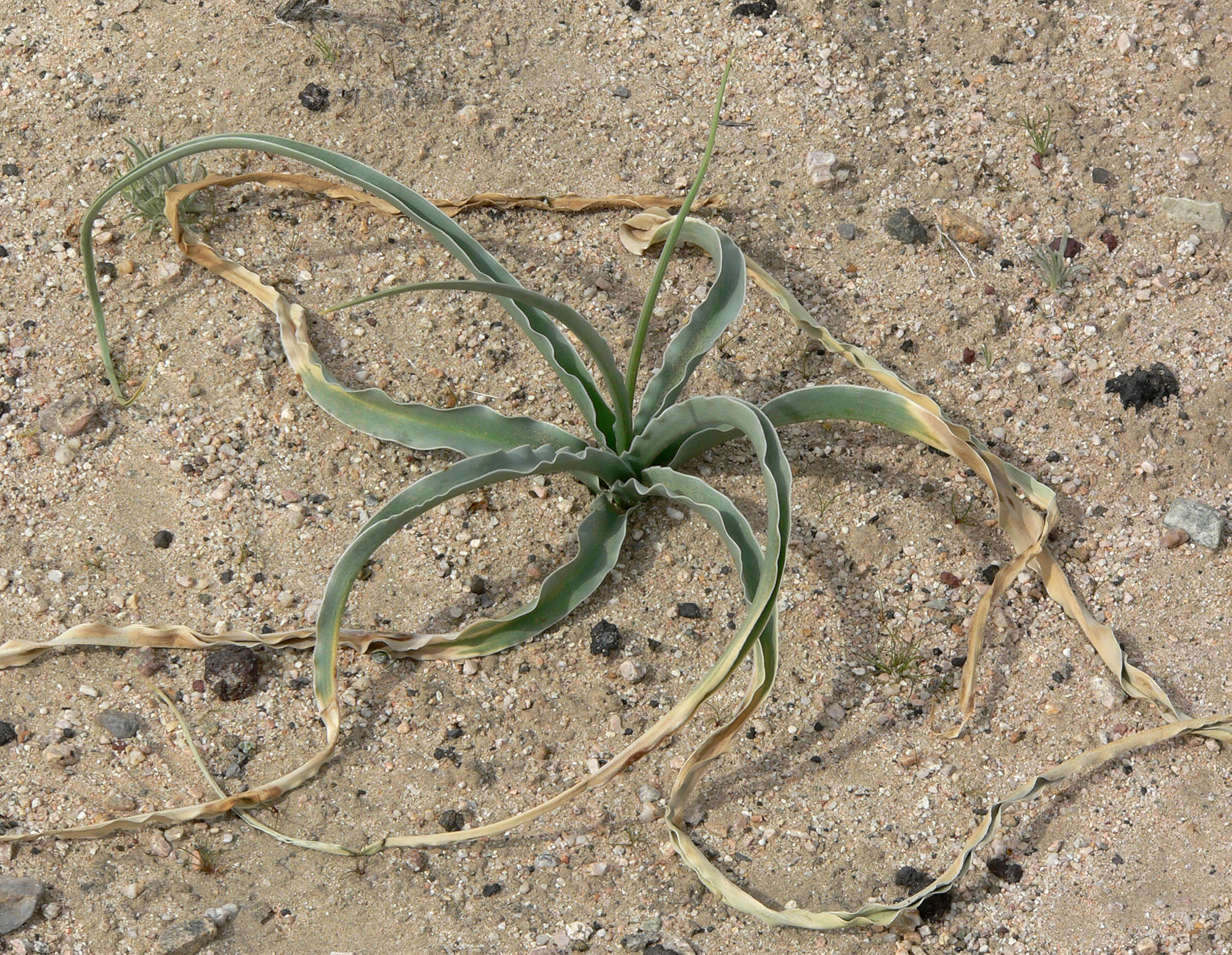 Hesperocallis undulata off the Old Mojave Road southeast of Little Cowhole Mountain, Mojave National Preserve, California